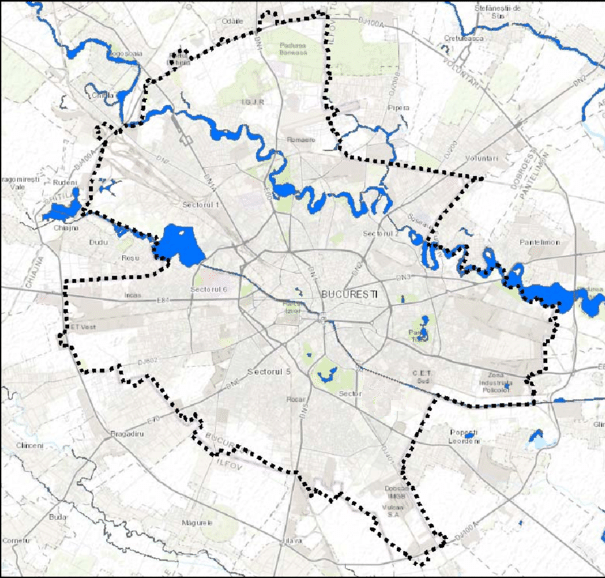 This is a map of Bucharest, mostly used for the Location map template.